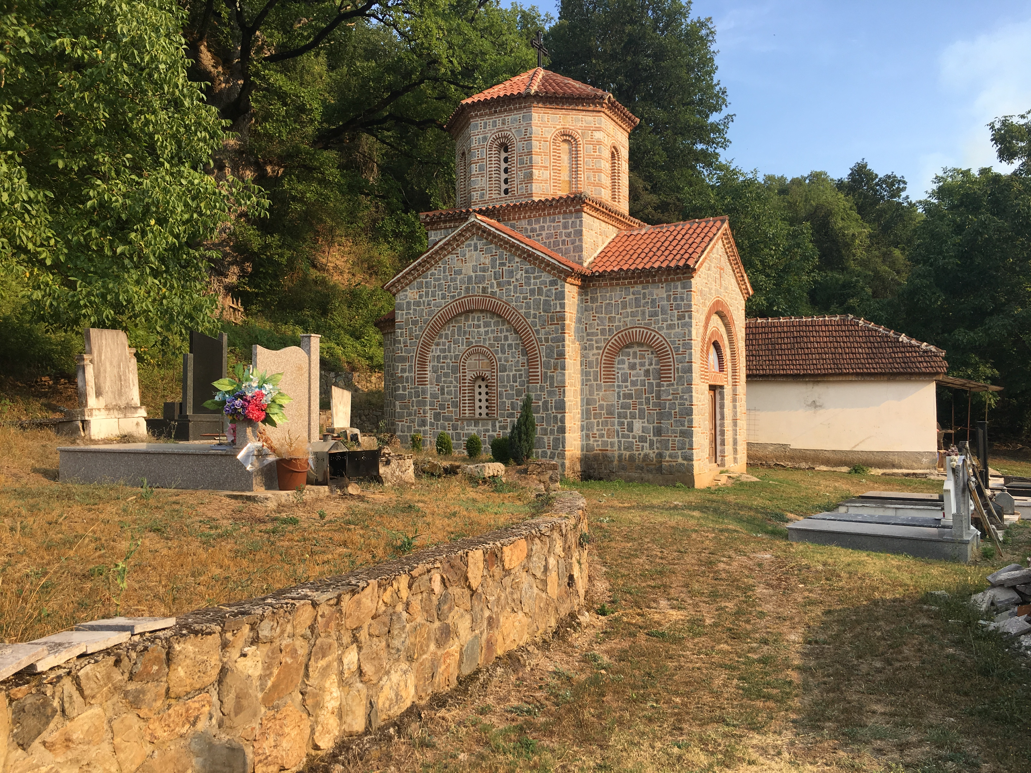 St. Nicholas Church in the village of Rasino